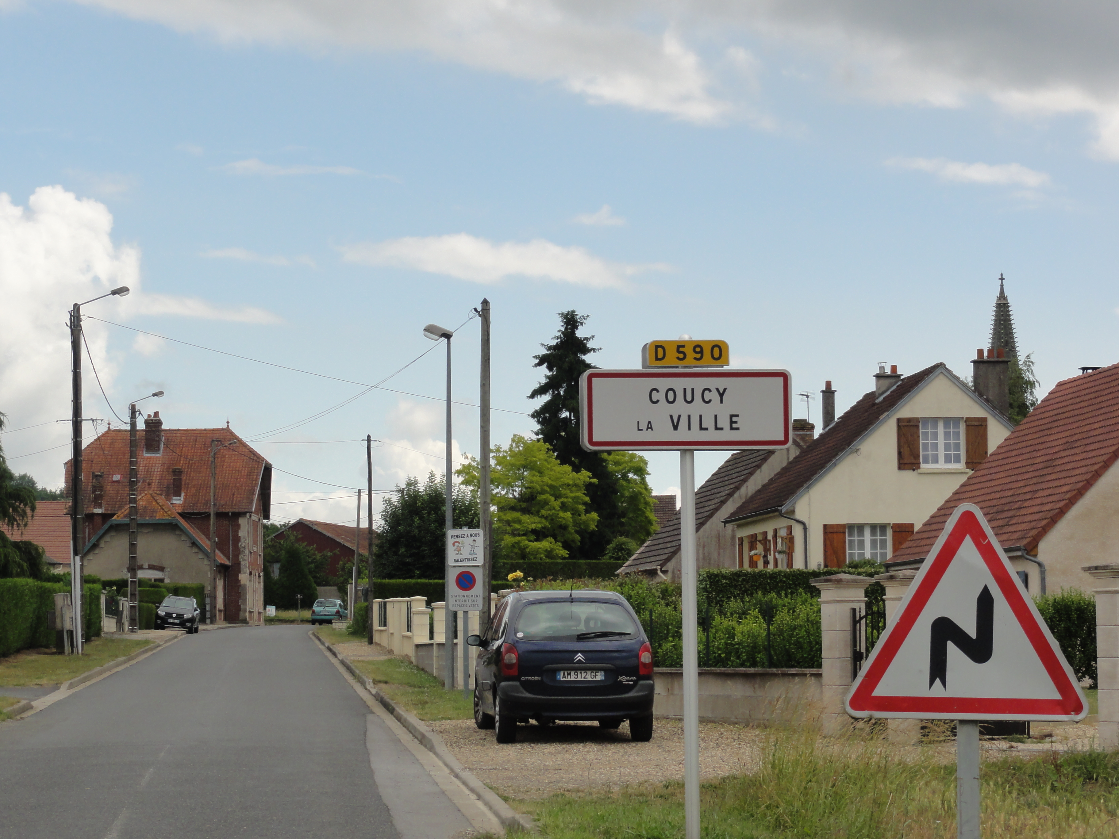 Coucy-la-Ville (Aisne) city limit sign